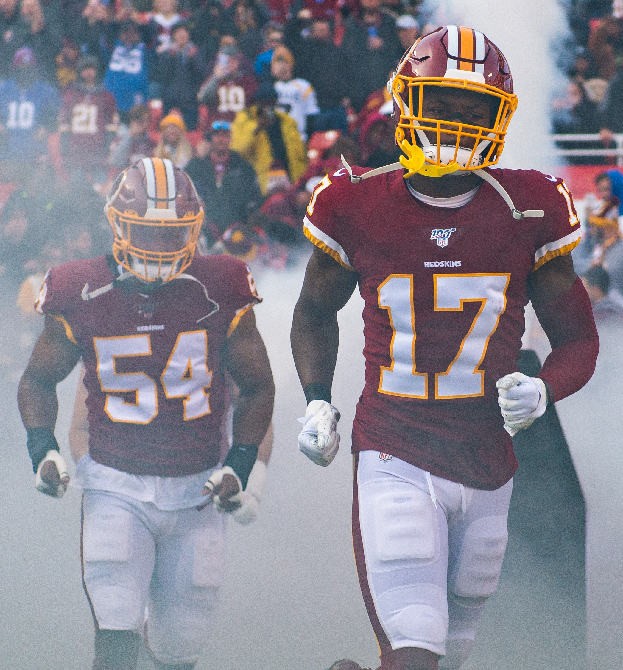 In 2019